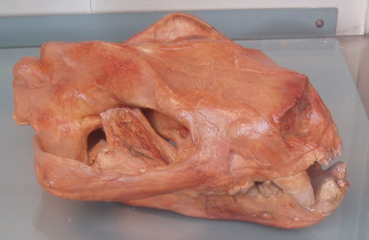 Skull of Patriofelis ulta, an early carnivore mammal